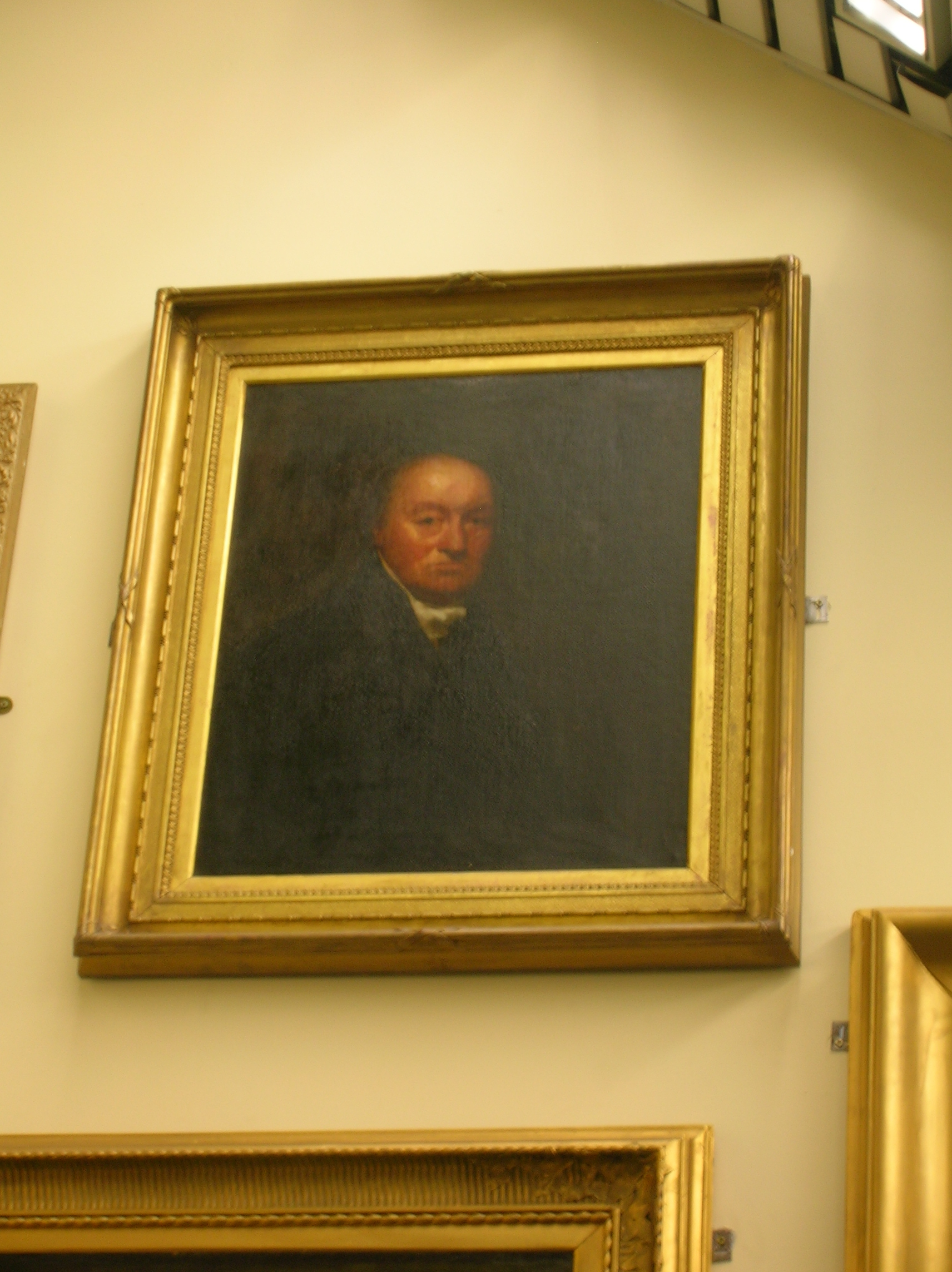 (Beith Library) Hugh Brown of Broadstone, Beith, Ayrshire, Scotland